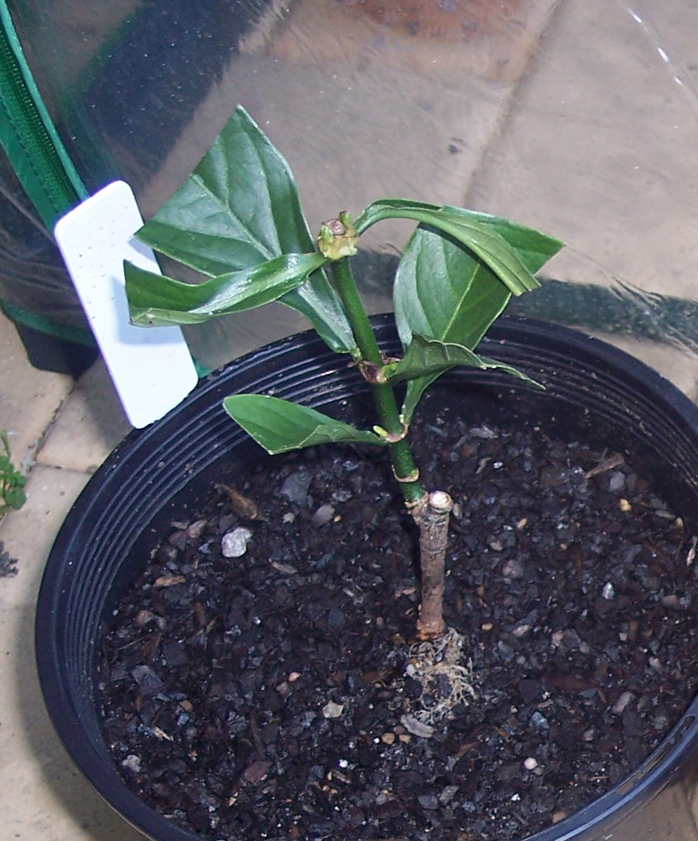 Psychotria-viridis and Catha-edulis plants with leaves clipped (clippings used for propagation)